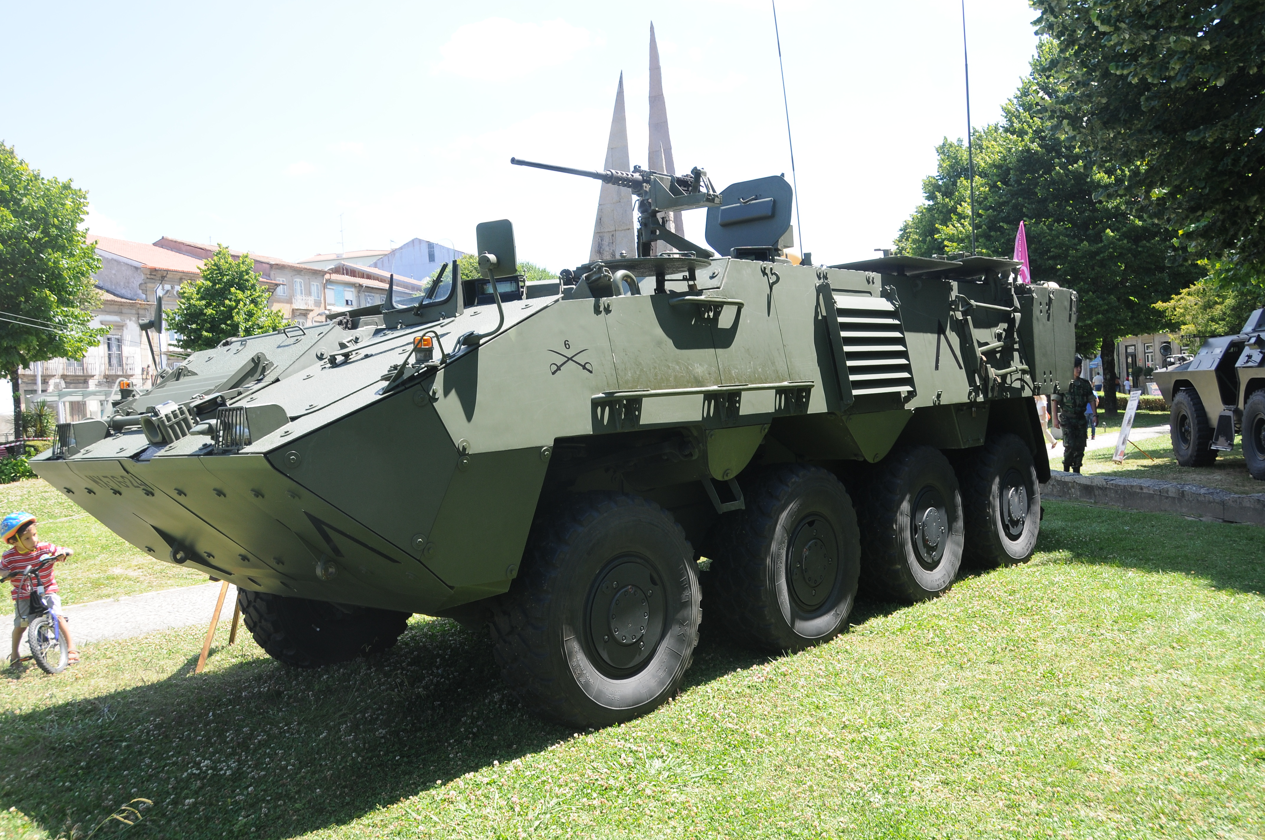 Pandur of Portuguese army